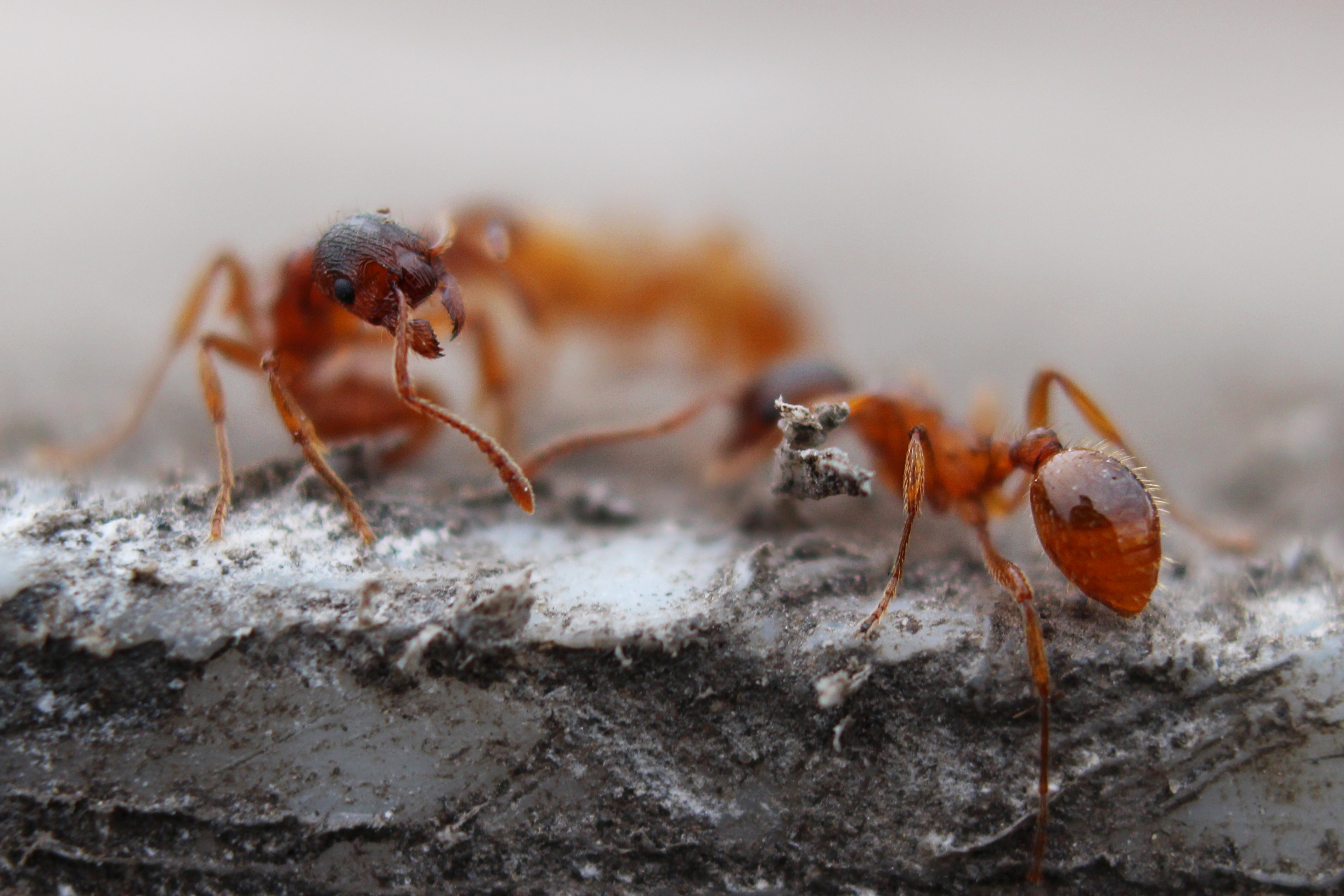 Red ants, also known as fire ants or solenopsis are stinging ants.